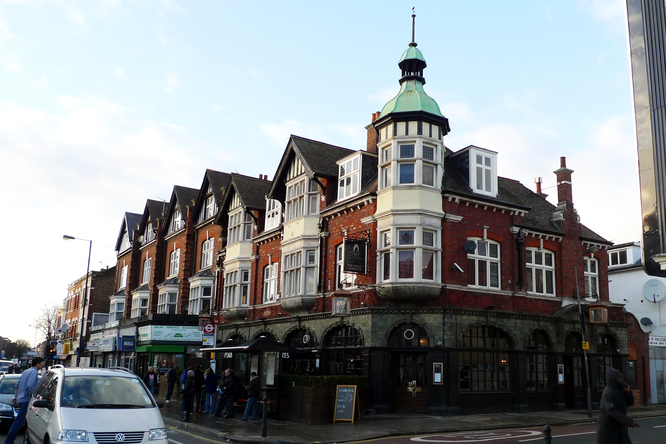 Attractive pub on the Uxbridge Rd. Address: 412 Uxbridge Road. Owner: Greene King [Real Pubs] (website); Mitchells and Butlers (former). Links: Fancyapint Beer in the Evening Qype